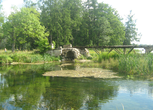 Large Stone Bridge. Gatchina, Russia